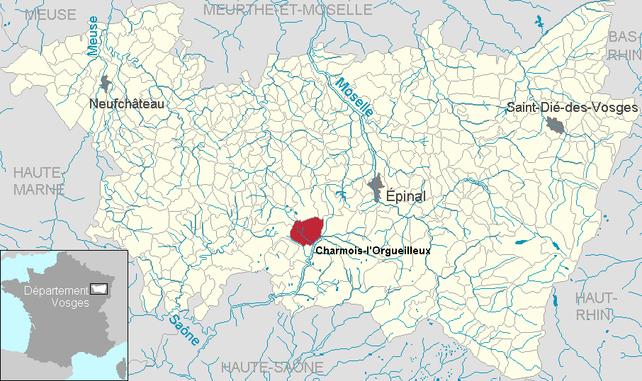 Charmois-l'Orgueilleux in the department of Vosges, Lorraine, France